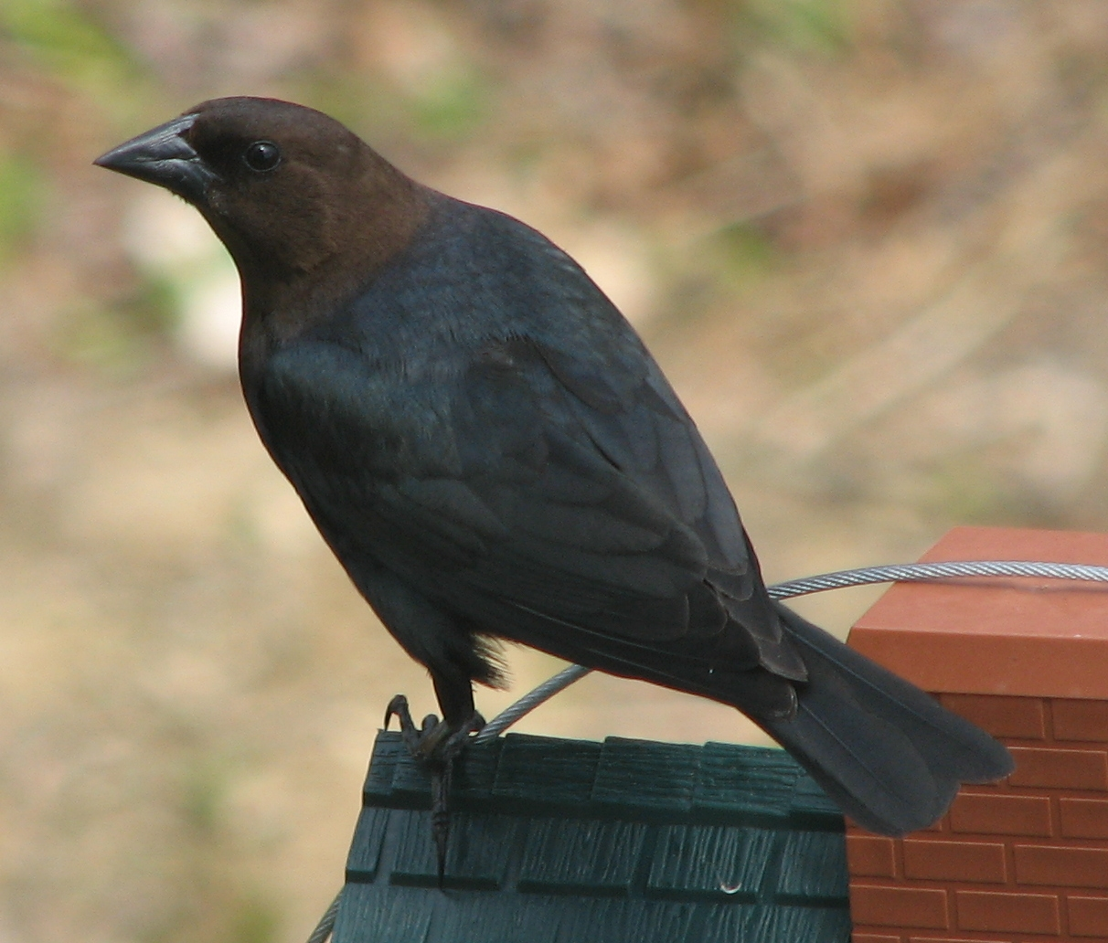 Male Brown-headed Cowbird (Molothrus ater)